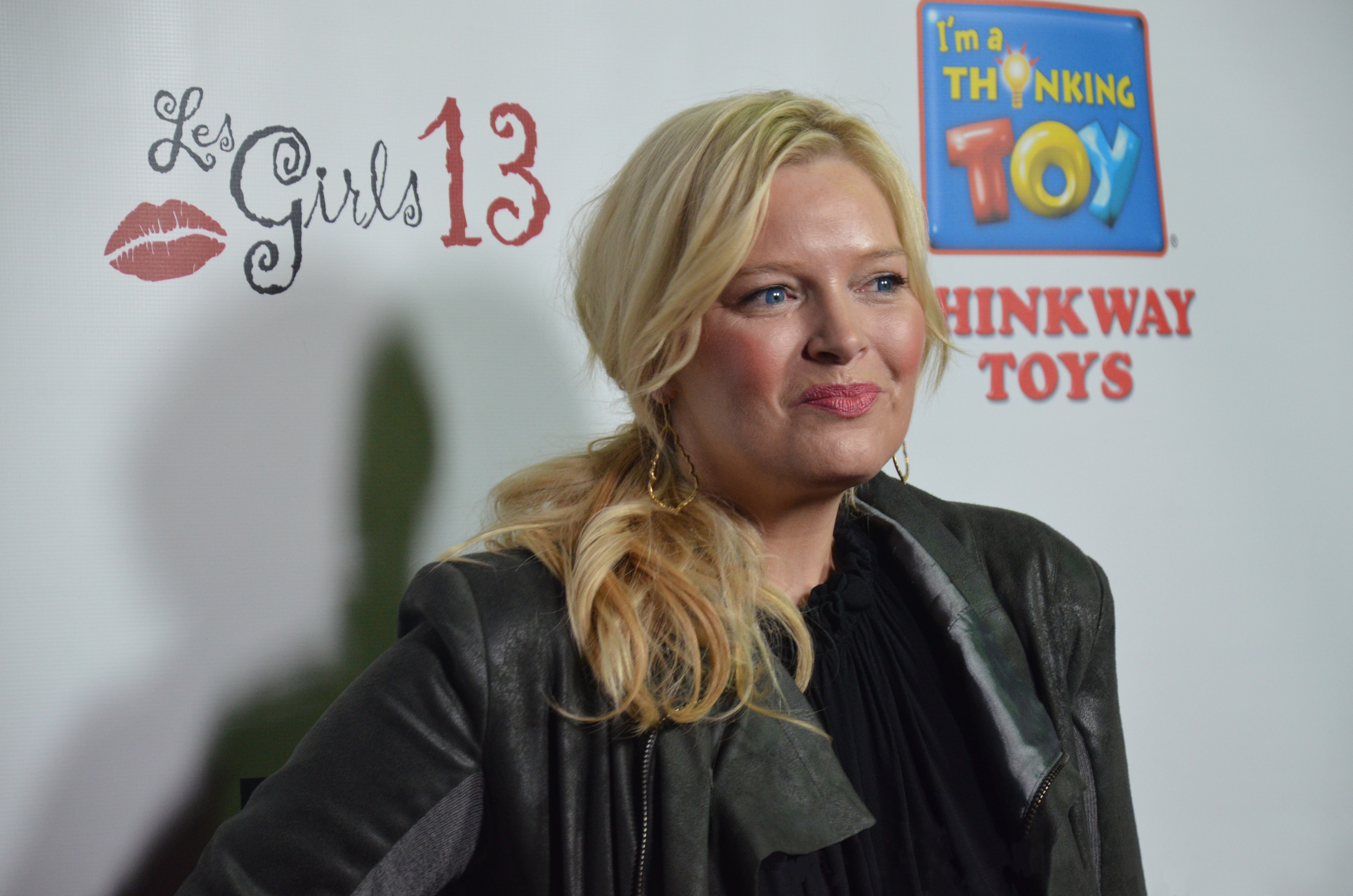 Melissa Peterman at the 13th Annual Les Girls Cabaret to benefit the National Breast Cancer Coalition Fund at the Avalon Hollywood. The event kicked off with a cocktail reception and silent auction followed by a sexy and wickedly funny evening of entertainment made possible by the donated performances by some of Hollywood's best talent.